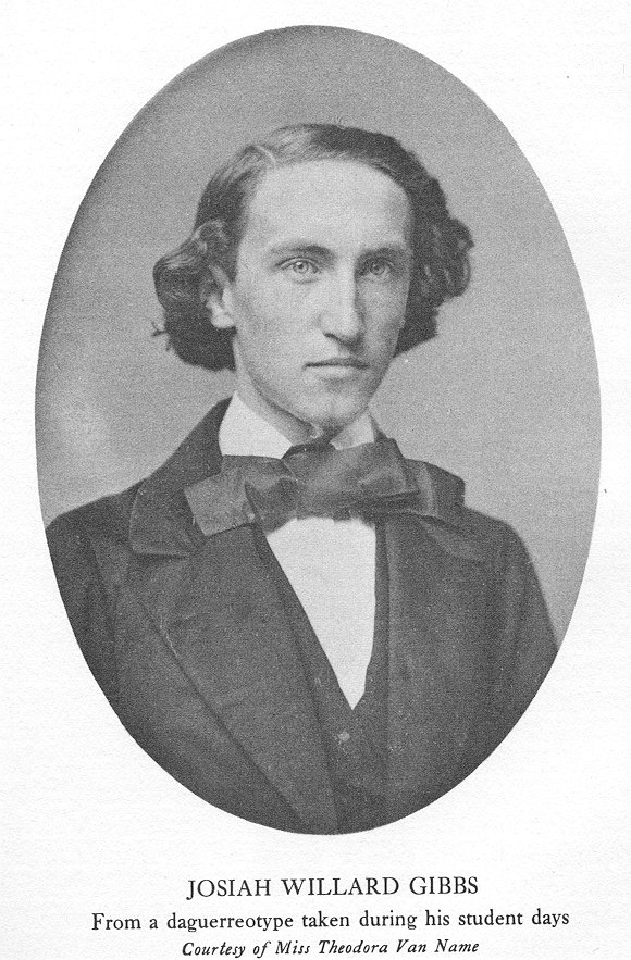 19th-century American scientist Josiah Willard Gibbs as a young man